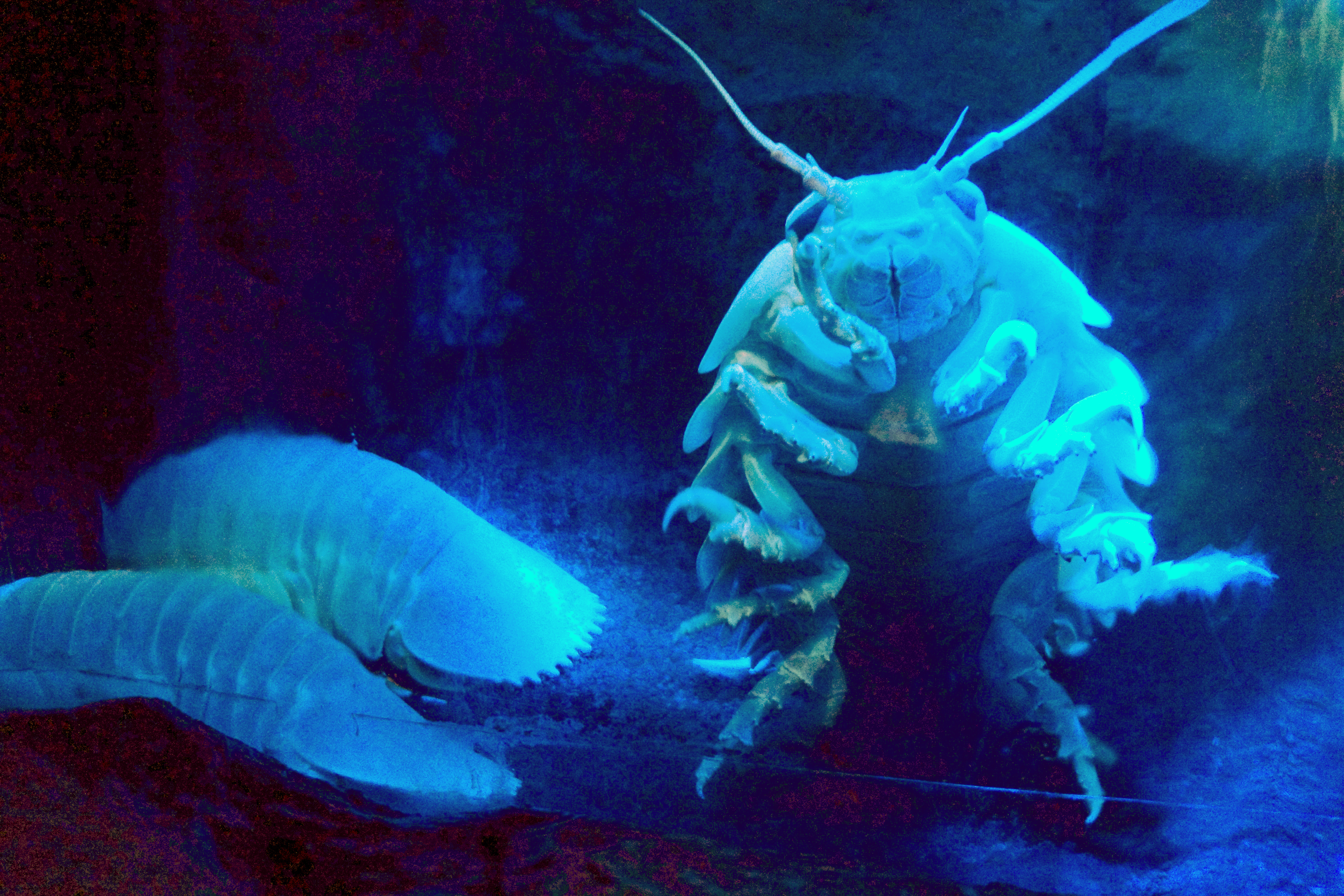 Bathynomus giganteus , Giant isopod , Numazu Deepblue Aquarium ,Shizuoka, Japan